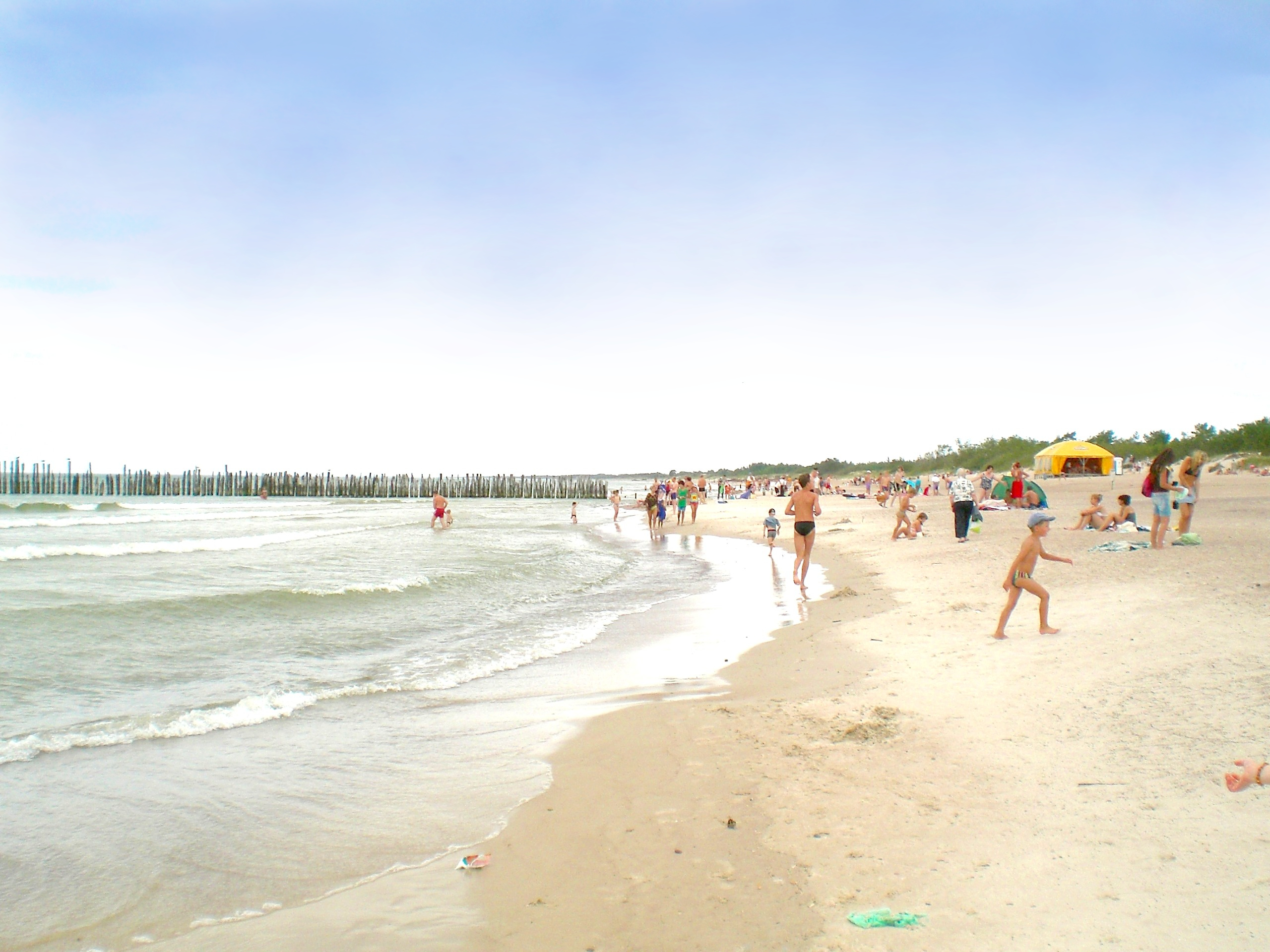 The beach of the Baltic Sea resort Šventoji, 10 north of Palanga in Lithuania